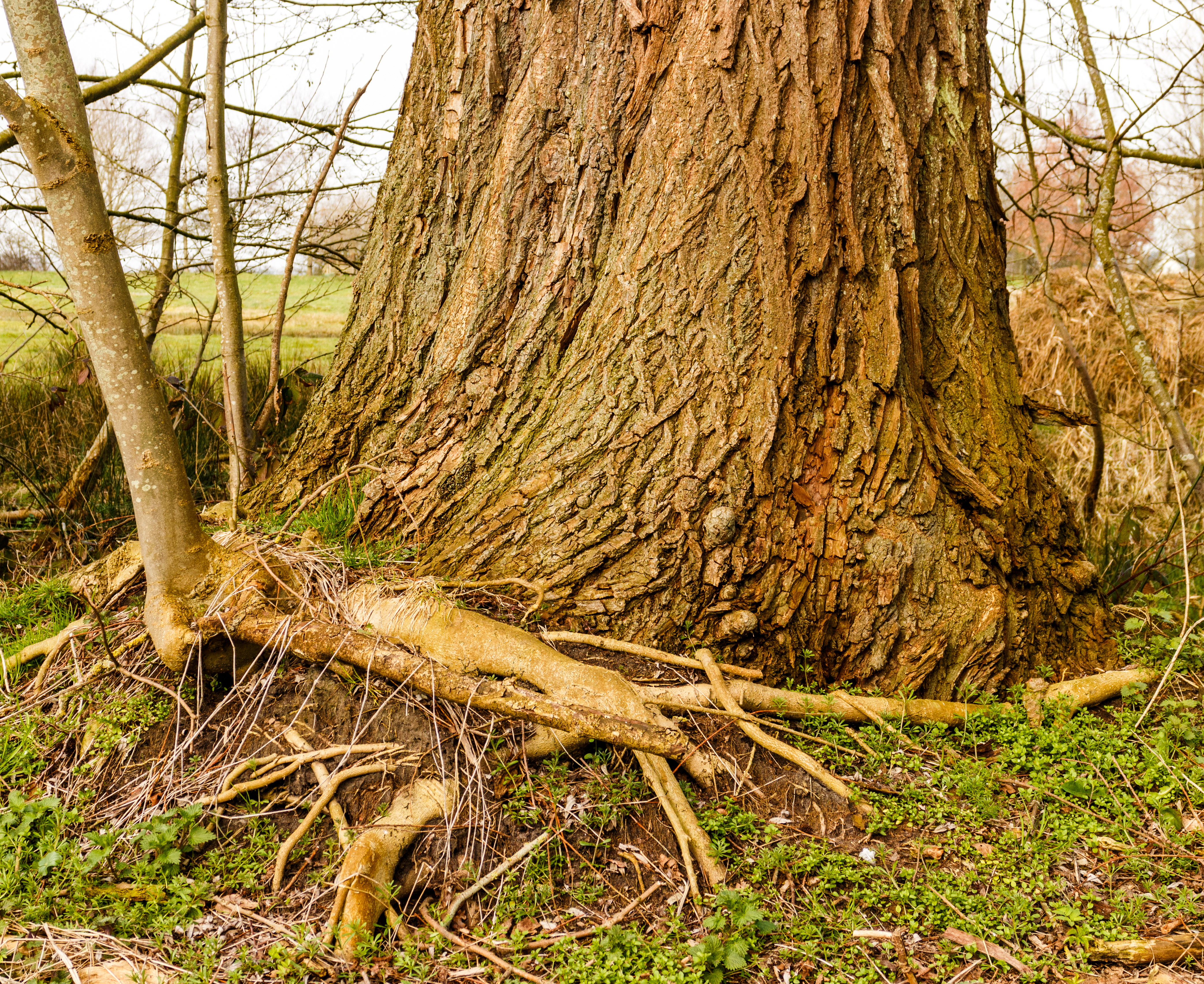 Roots of an ash (Fraxinus excelsior) to foot of a willow (Salix). Location Natuurterrein The Famberhorst.